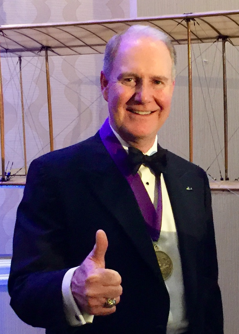 Gary Kelly at the 2016 Tony Tony Jannus Award Banquet